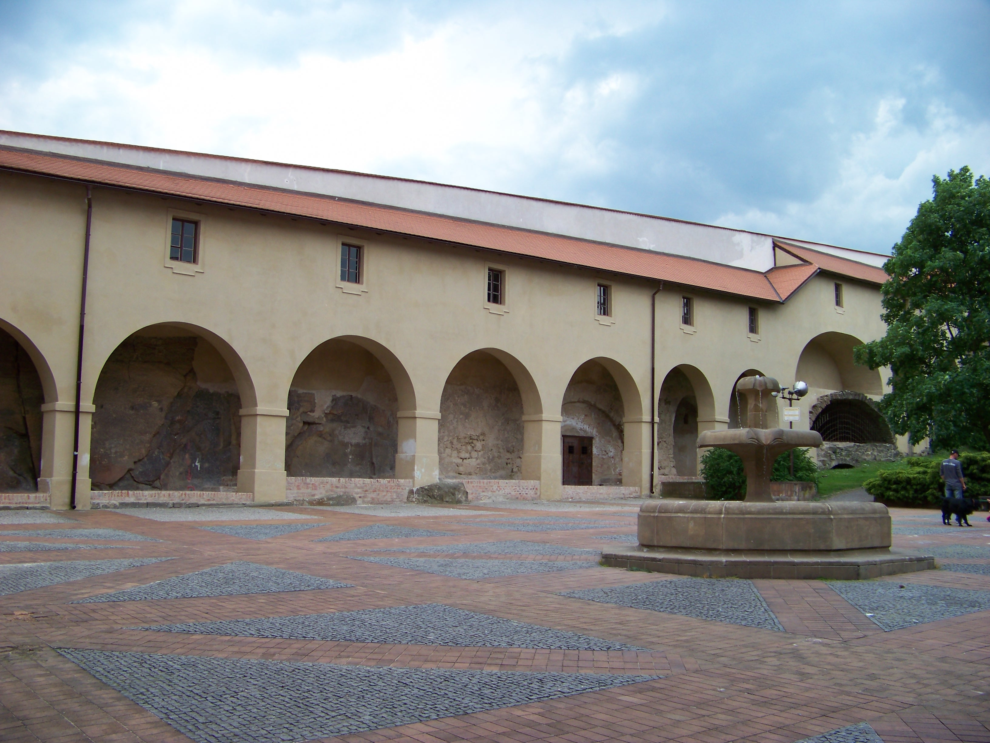 Děčín I-Děčín, Děčín District, Ústí nad Labem Region, the Czech Republic. Křížová street, a wall of Dlouhá jízda.